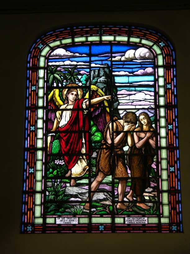 stained glass in church of Sao Joao Batista, Campos Novos, SC